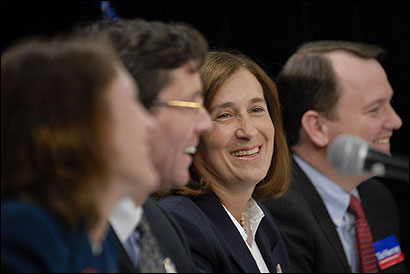 In May 2006, a cosortium of political bloggers sponsored a debate of the Dem candidates for Lt Gov of Massachusetts from the studios of Lowell Telecommunications Corp. From left are candidates Andrea Silbert, Sam Kelly, Deb Goldberg and Tim Murray